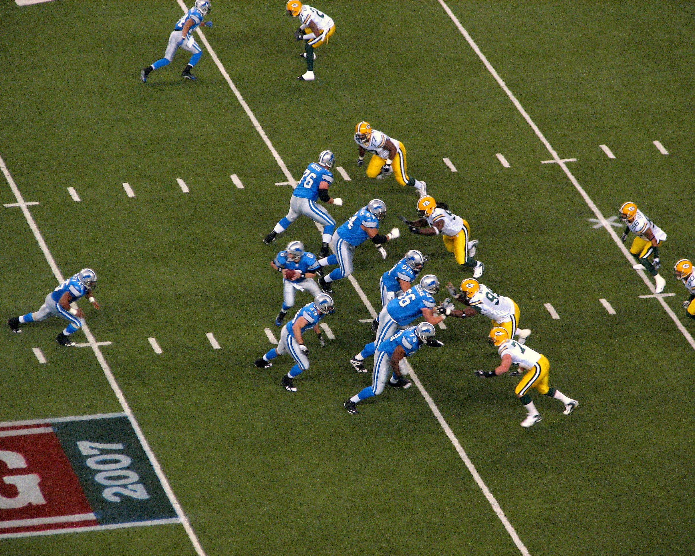 Jon Kitna prepares to hand off to Kevin Jones in the first quarter of the Thanksgiving Day game between Detroit and Green Bay in 2007 at Ford Field.